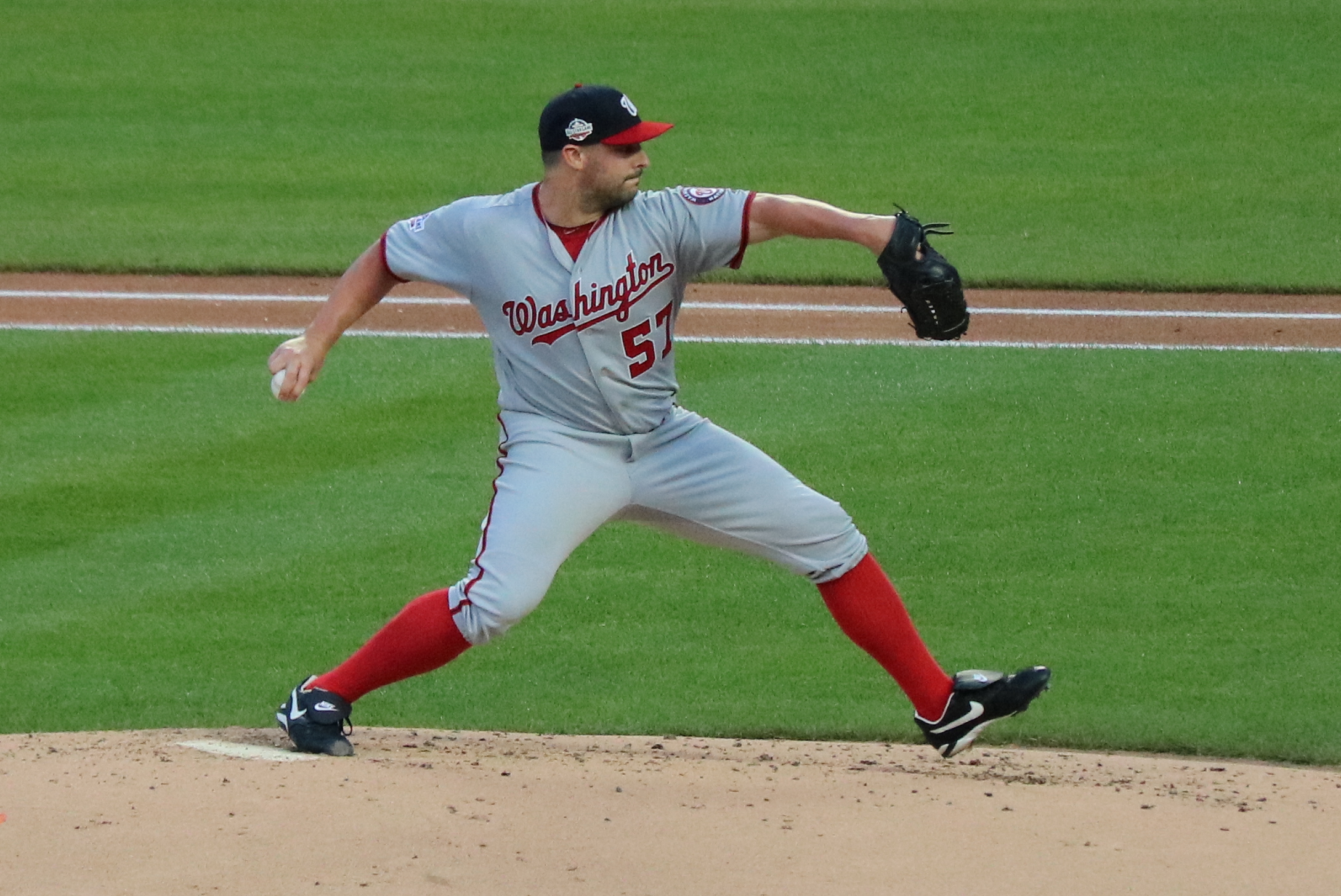 Tanner Roark pitches, viewed from LF corner, July 13, 2018